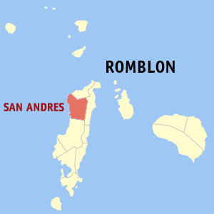 Map of Romblon showing the location of San Andres